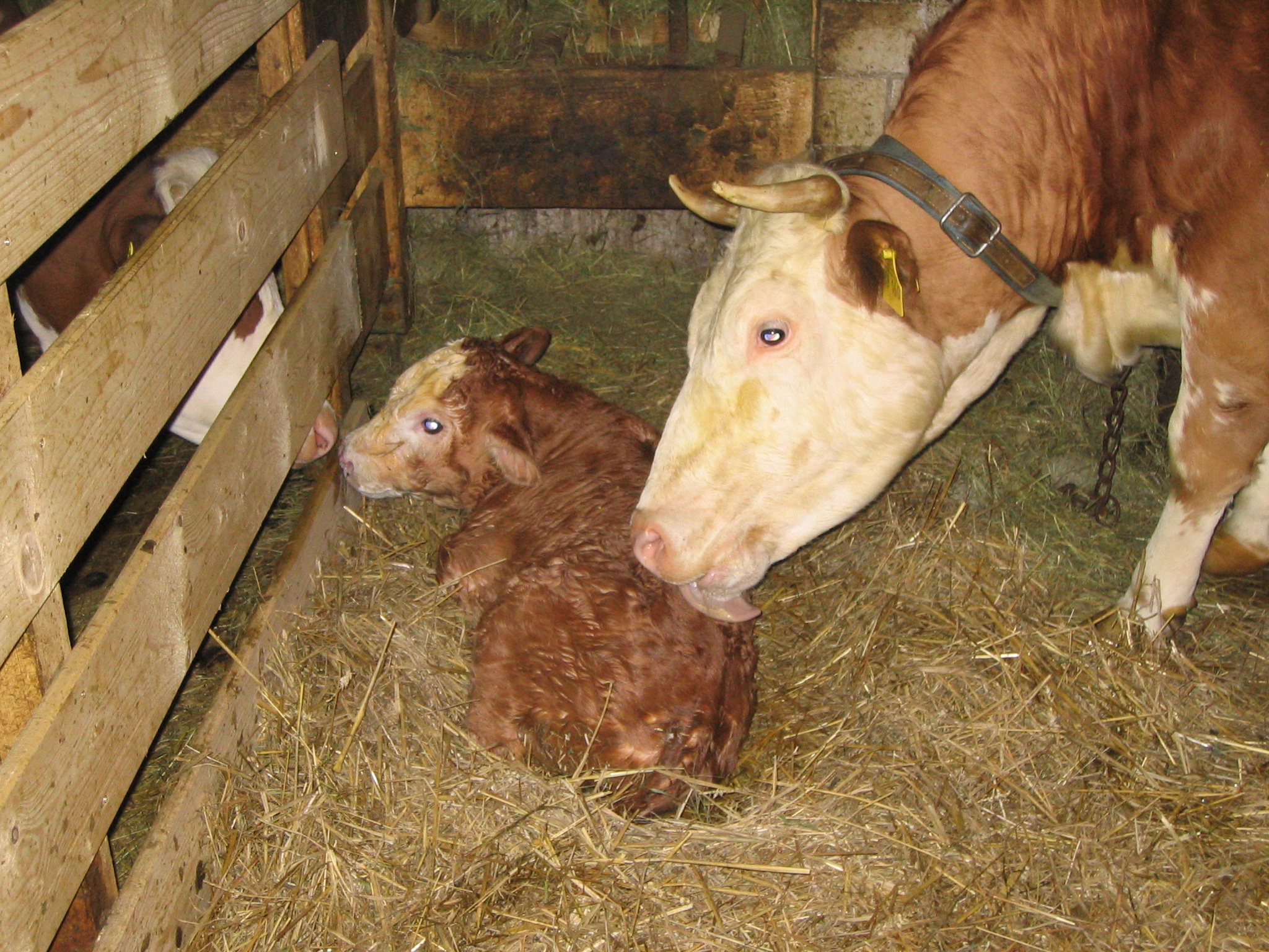 Cowing licking her calf clean shortly after birth